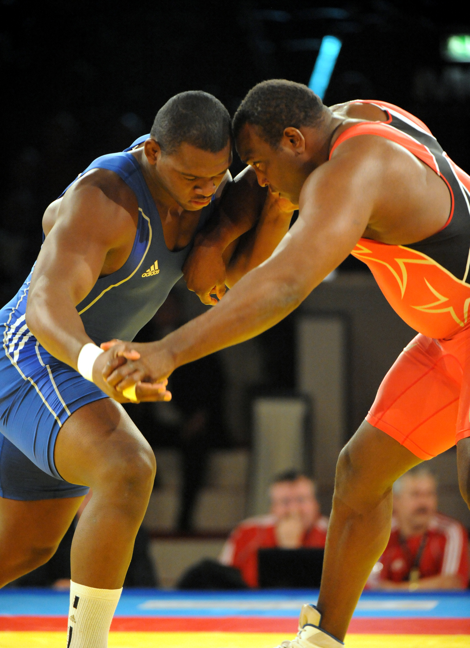 Sgt. 1st Class Dremiel Byers (right) squares off against two-time world and reigning Olympic heavyweight champion Mijain Lopez of Cuba in the Greco-Roman 120-kilogram/264.5-pound finale of the 2009 World Wrestling Championships Sept. 27 in Herning, Denmark. Lopez won the gold medal and Byers took the silver.